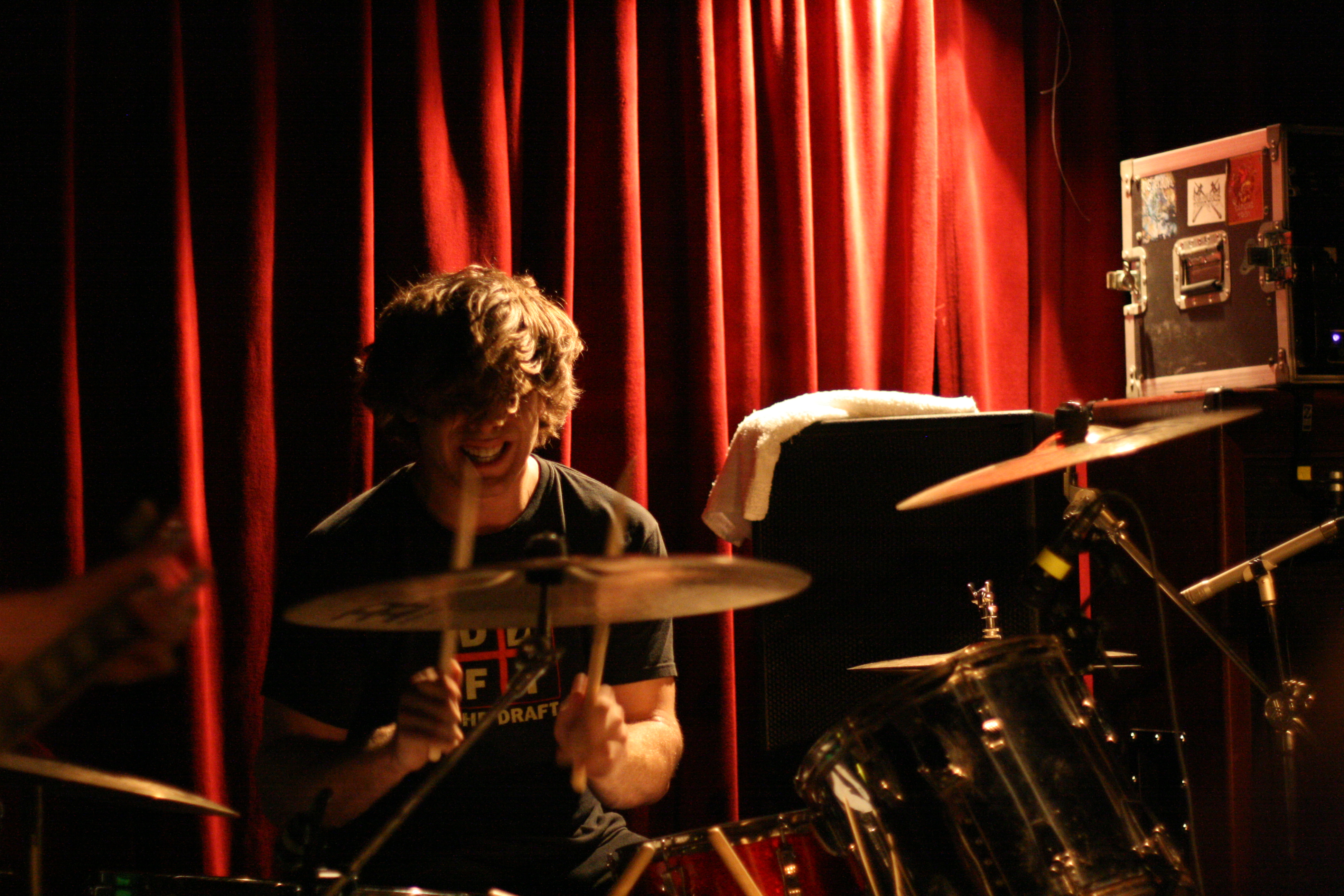 Allen Blickle, drummer of Baroness, performing live in New Jersey.